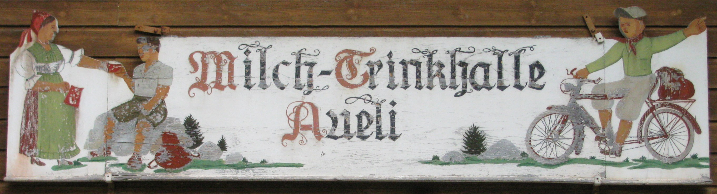 Switzerland - Appenzell Innerrhoden (AI) - Schwende - Wasserauen: advertising sign of "Milch-Trinkhalle Aueli"